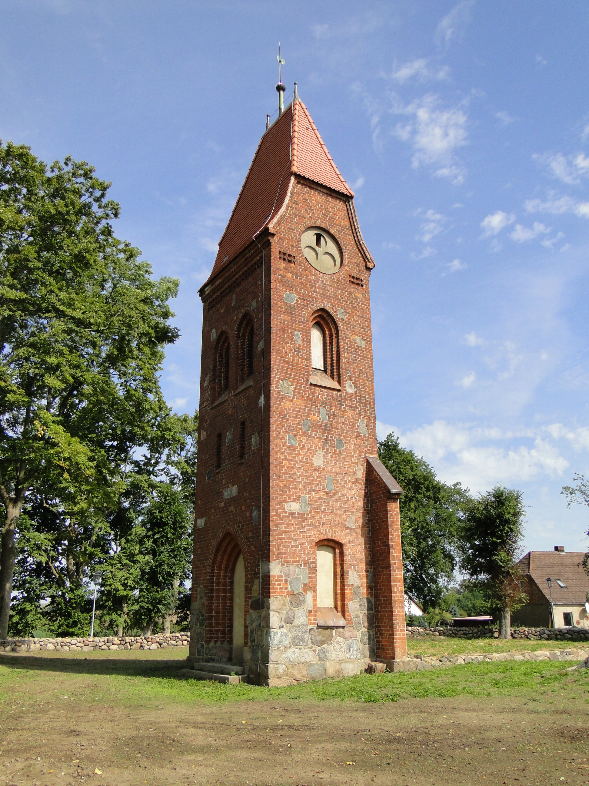 Church tower in Dargelütz, district Parchim, Mecklenburg-Vorpommern, Germany